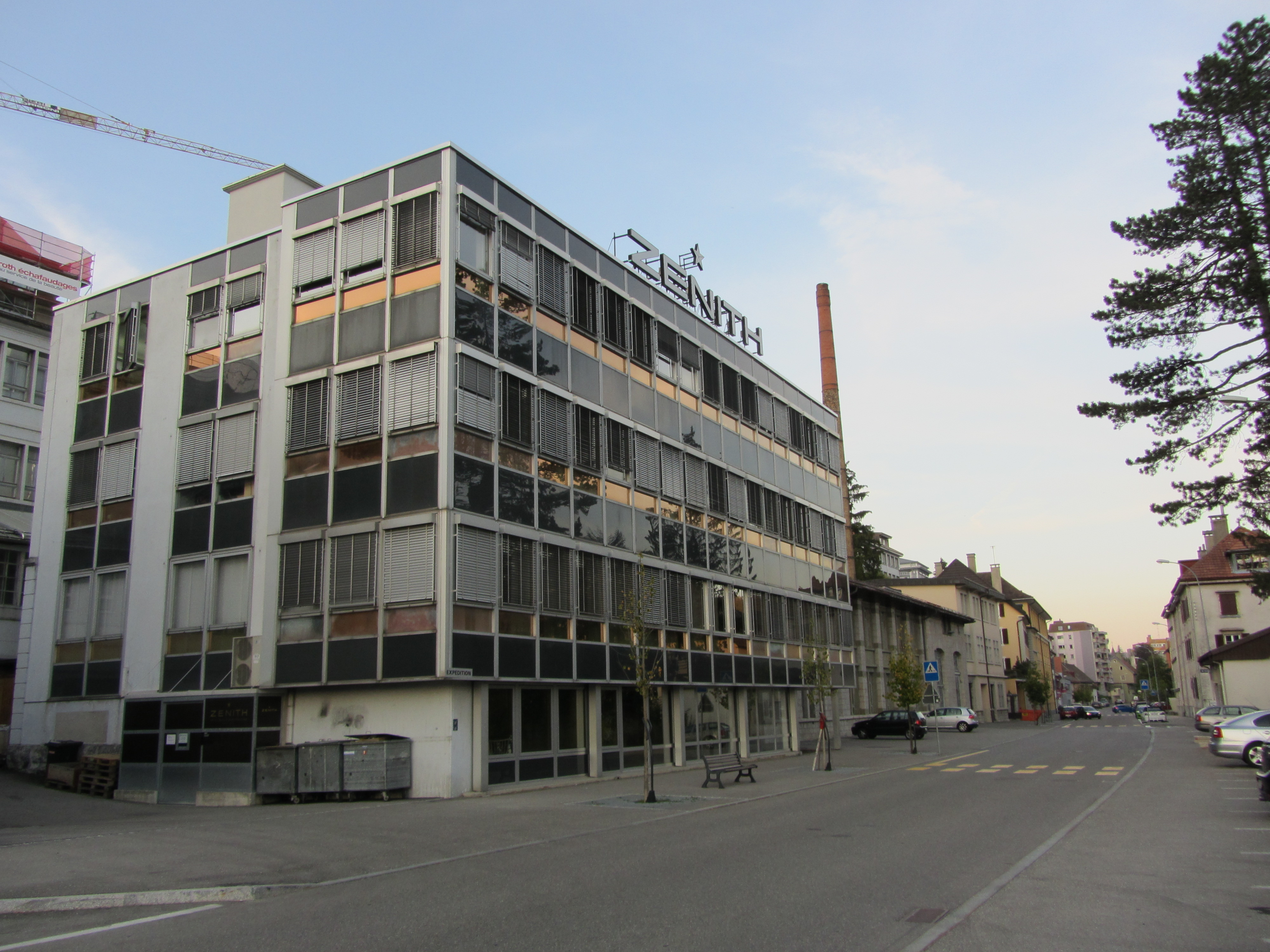 Switzerland, Le Locle. Zenith watchmaking factory